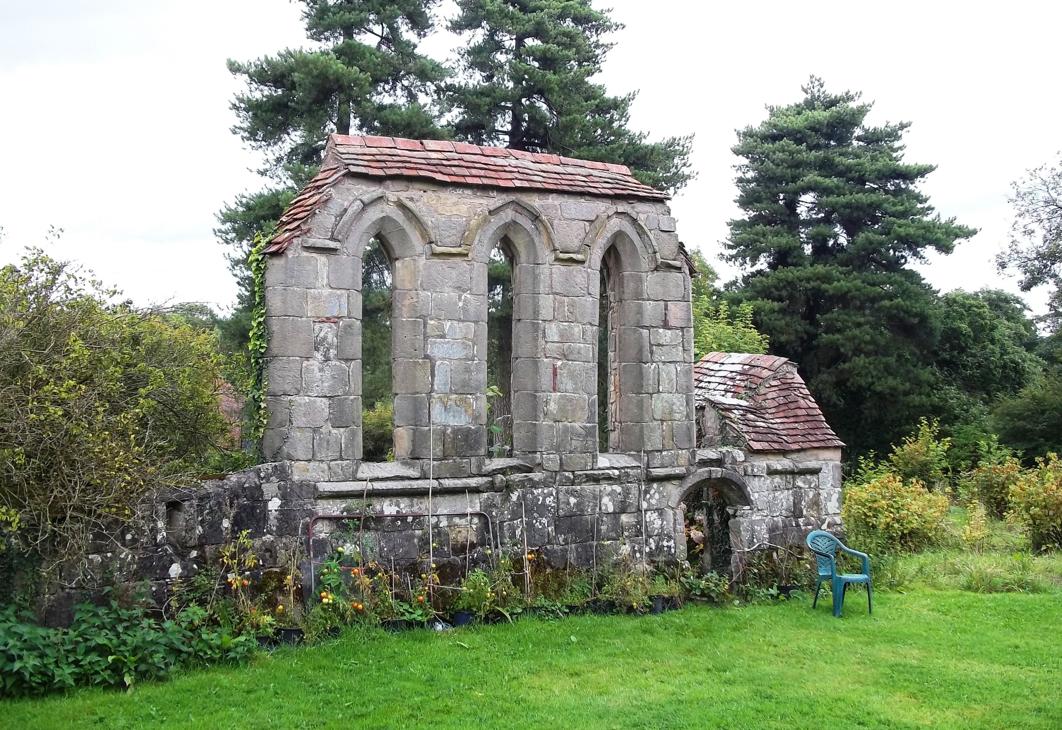 Ruin of the preceptory chapel of SS Mary and John the Baptist, Stydd Hall, Yeaveley, Derbyshire